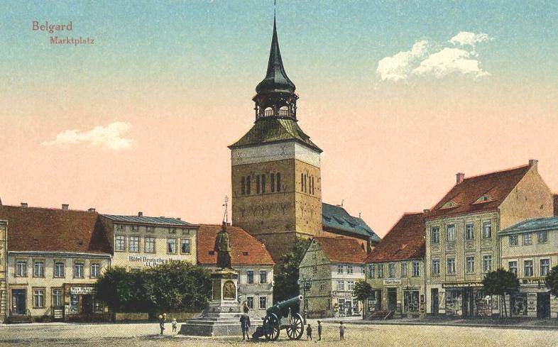 Marketplace and Church in Białogard about 1900